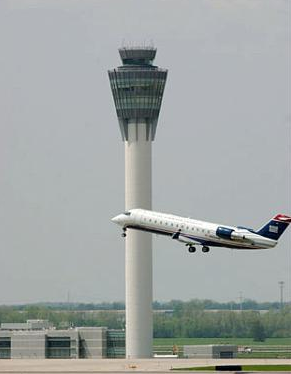 air traffic control tower